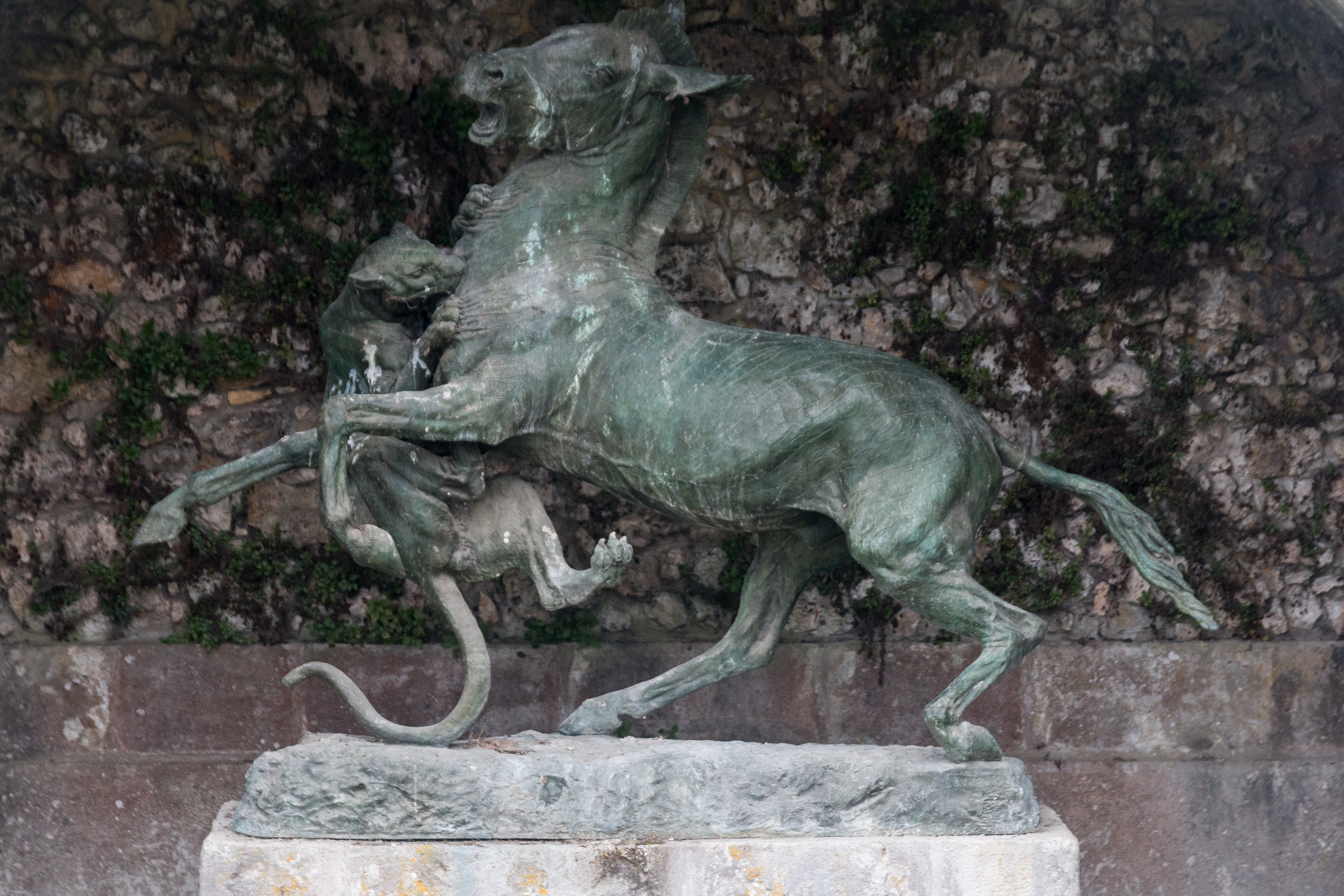 Zebra attacked by a panther, work of Isidore Bonheur.